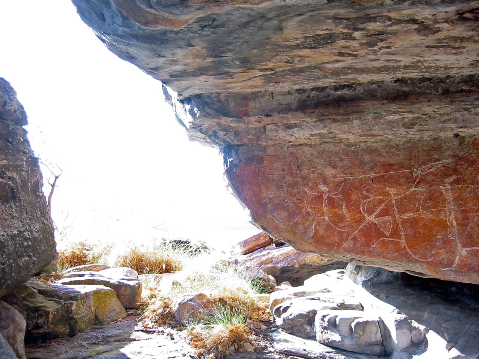 Aboriginal Rock Art, Ubirr Art Site, Kakadu National Park, Australia